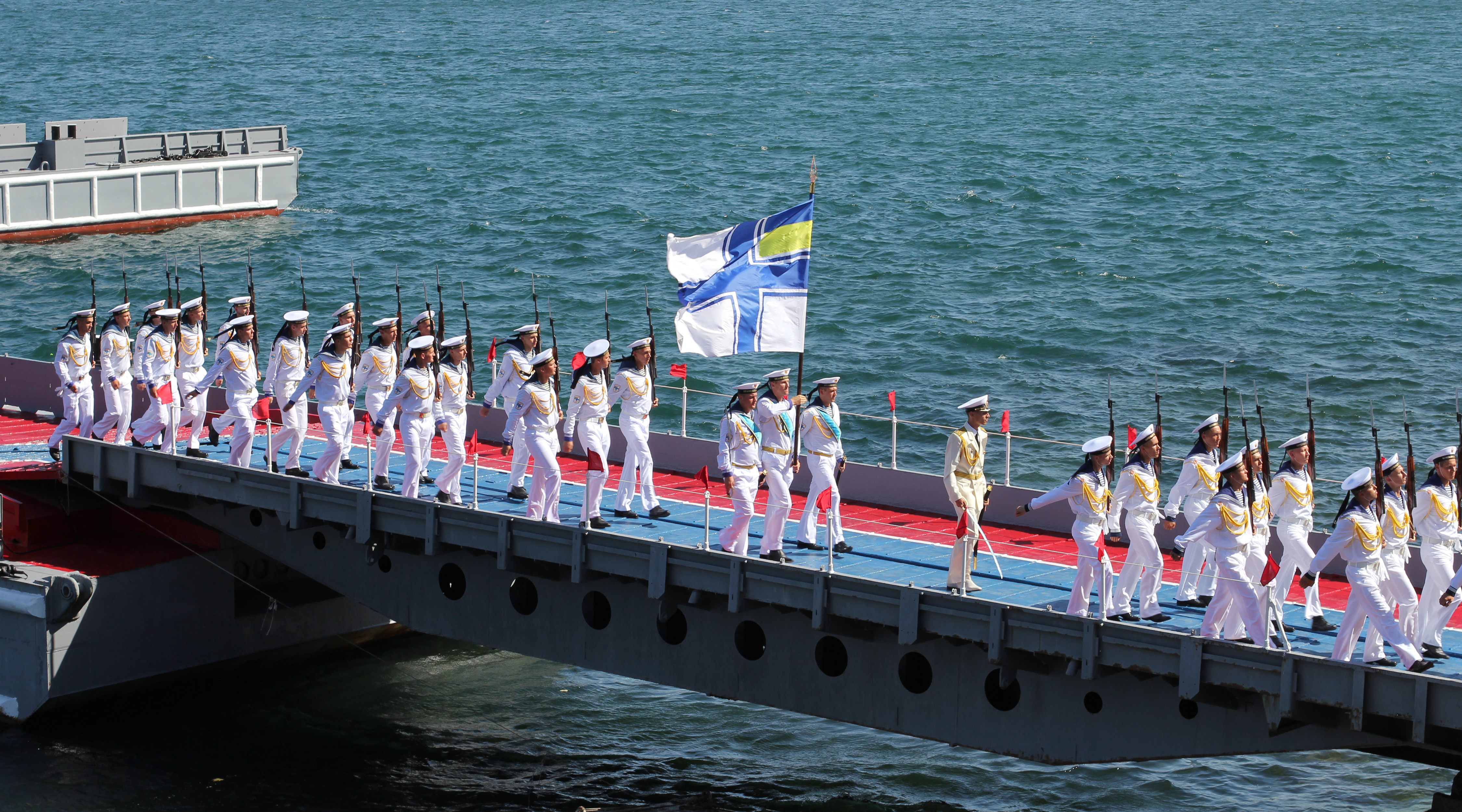 Joint celebration of The Navy Day in Russia and Ukraine. Ukrainian Naval Standard-bearers. Sevastopol bay. Dress rehearsal.